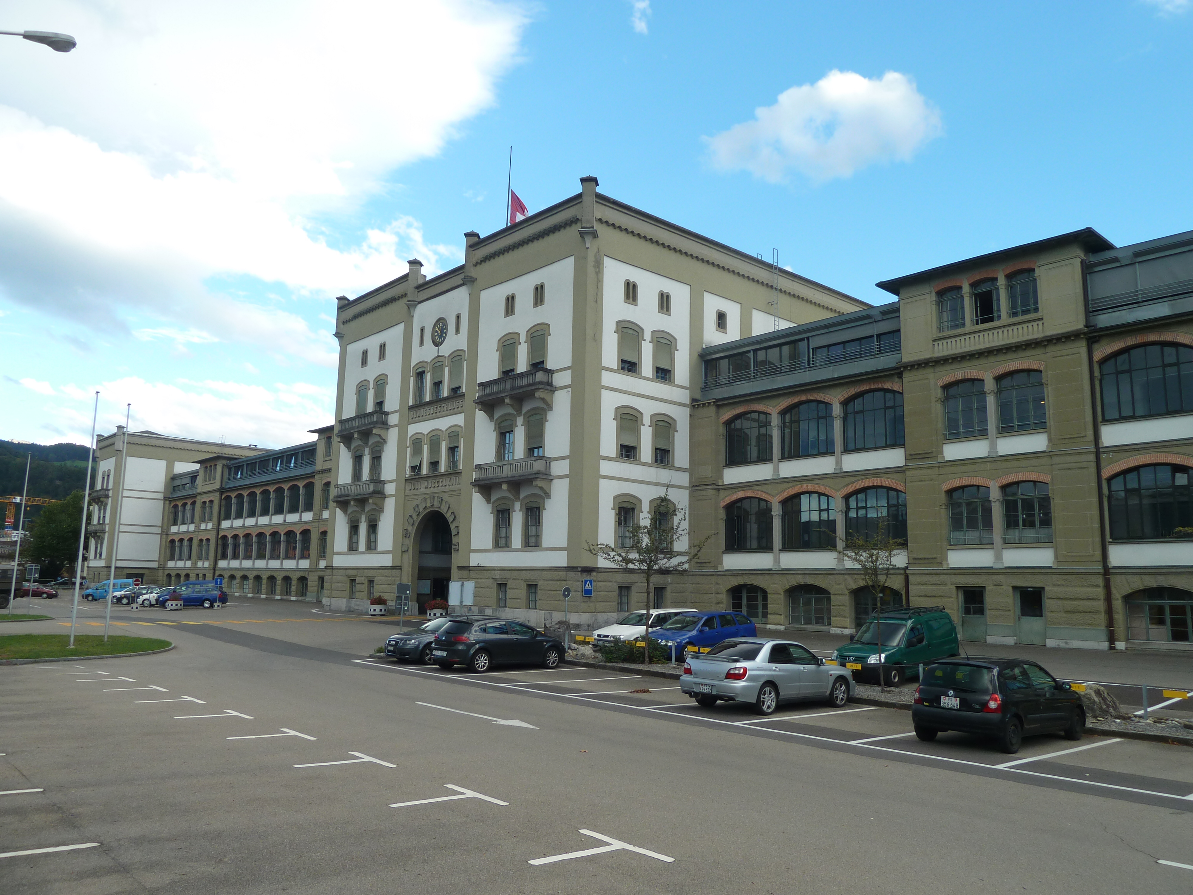 Kulturgut der Schweiz (KGS), Klasse A, Nr 1273